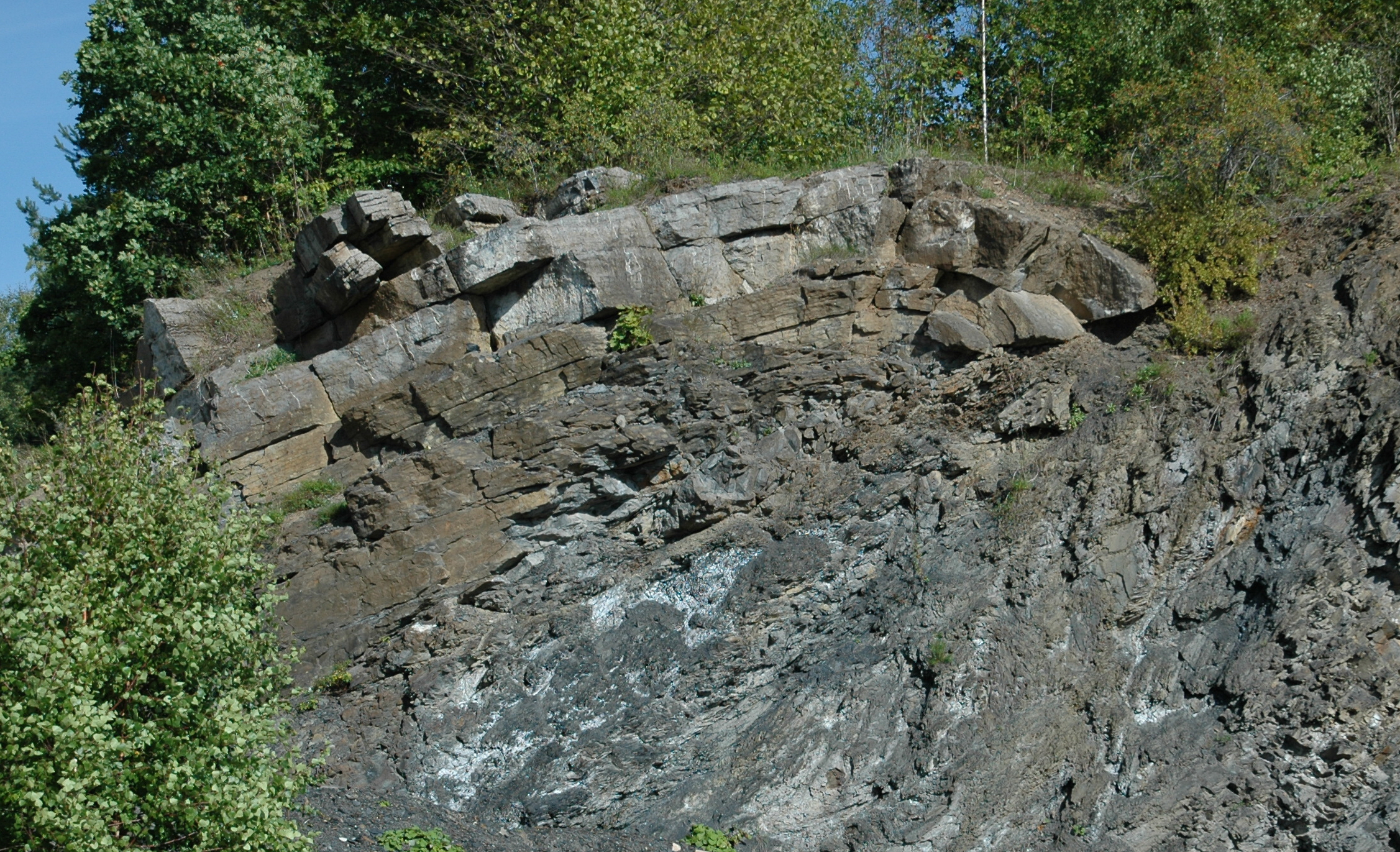 A fault at Bjerkaas, Norway, a part of the Oslo Region. Older rock to the left and above younger rock. My own photograph, Kjetil Lenes.